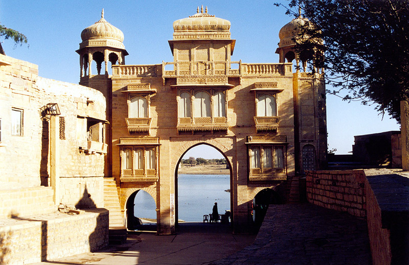 Gadisar Gate in Jaisalmer, Rajasthan, India